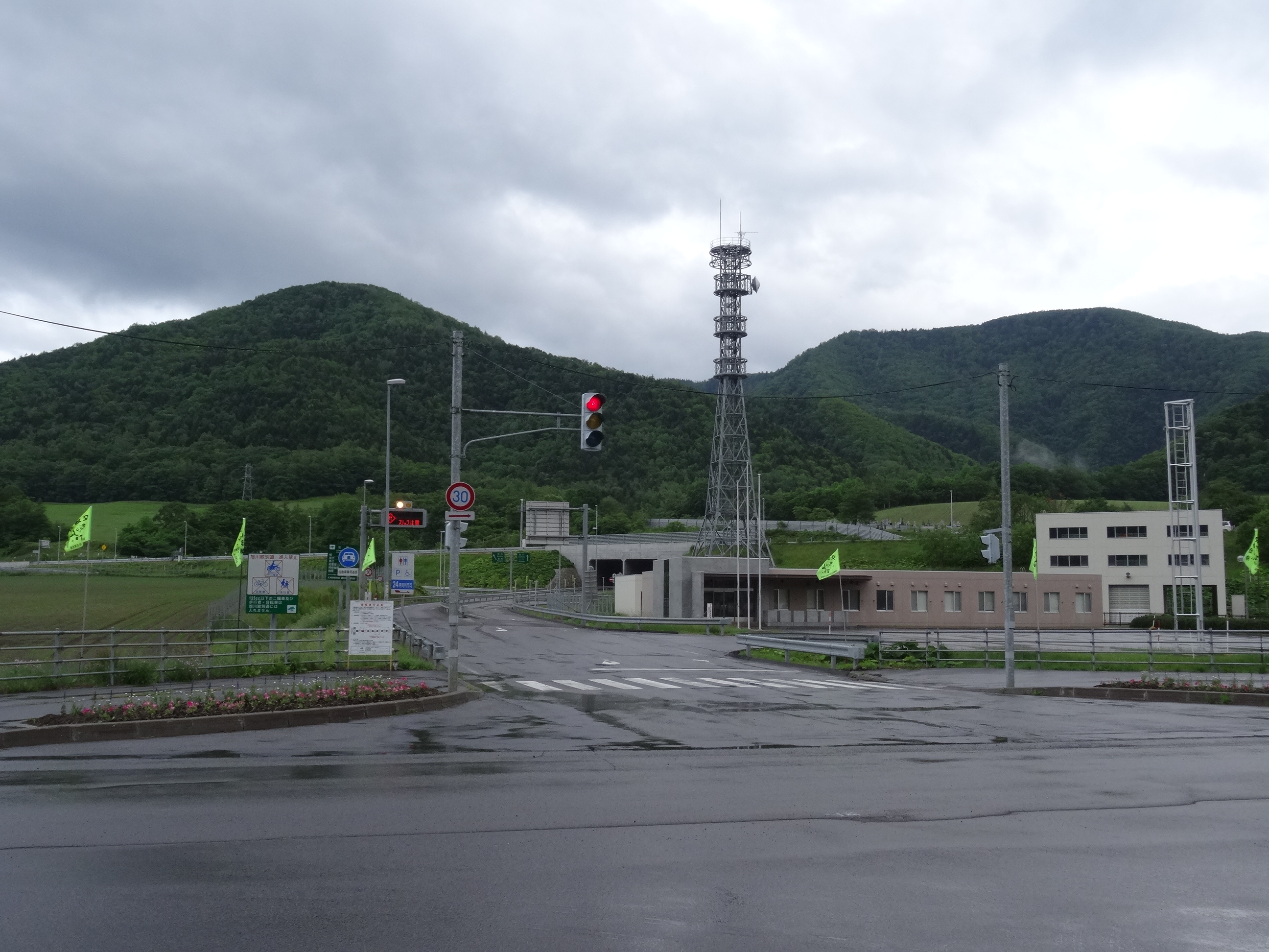 Japan National Road Route 450 Asahikawa-Monbetsu Expressway, Shirataki Interchange